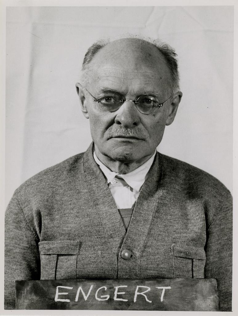 Karl Engert (1877-1951) was Chief of Penal Administration Division and Inmate Transfer Division in the German Ministry of Justice (Reichsjustizministerium) during the Second World War. This photograph of Engert (probably as a defendant during the Nurmeberg Trials No. III - the Justice Case) was taken by US Army photographers on behalf of the Office of the U.S. Chief of Counsel for the Prosecution of Axis Criminality (OUSCCPAC, May 1945 - Oct. 1946) or its successor organization, the Office of Chief of Counsel for War Crimes (OCCWC, Oct. 1946 - June 1949).